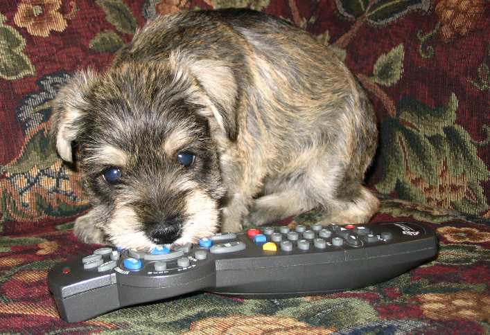 Miniature Schnauzer pup (five weeks). Photograph taken by Brittany Aulds (Age 14) of Arab, Alabama